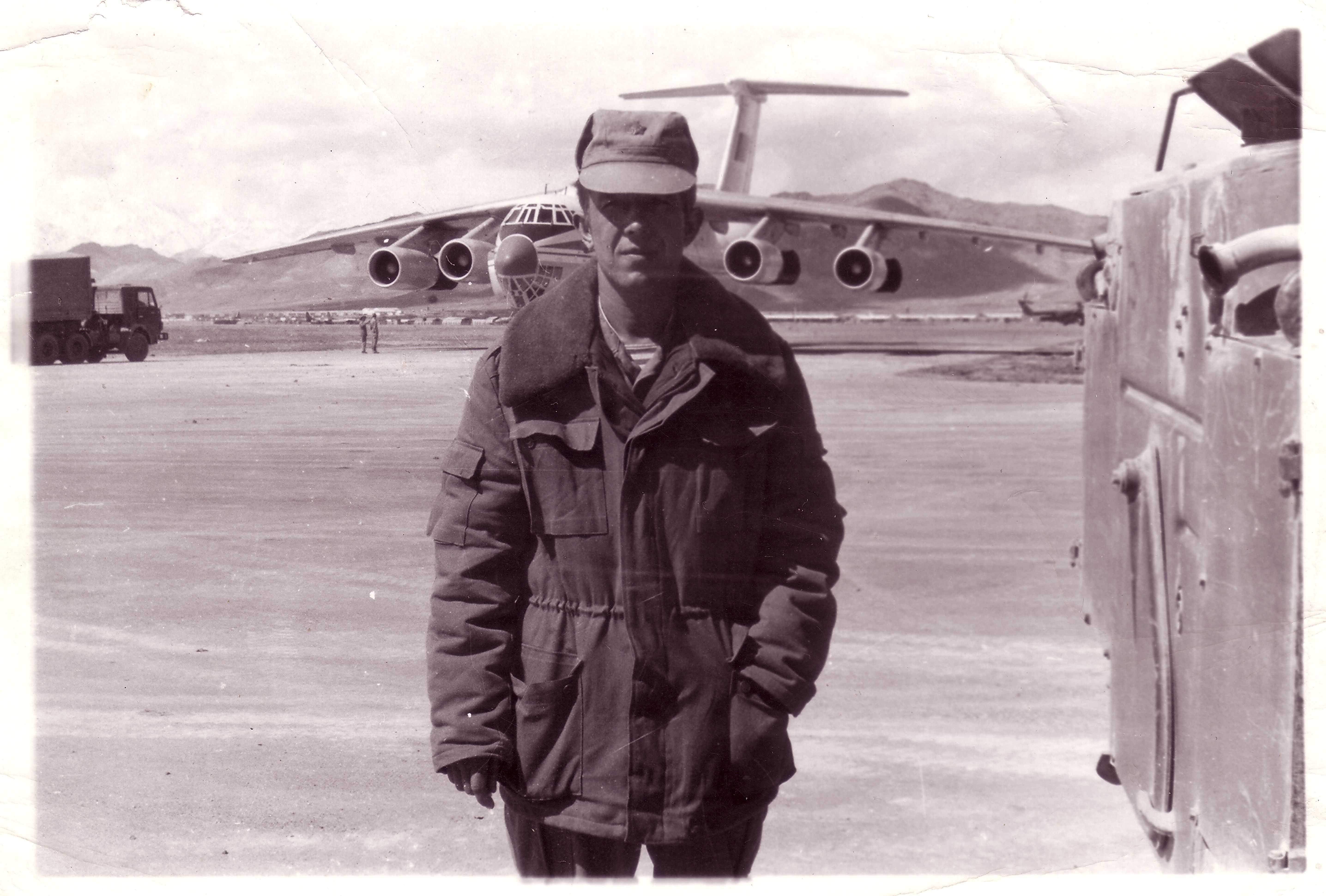 Soviet Army in Afgan, 1987. Il-76 (Aeroflot). VVP Kabul